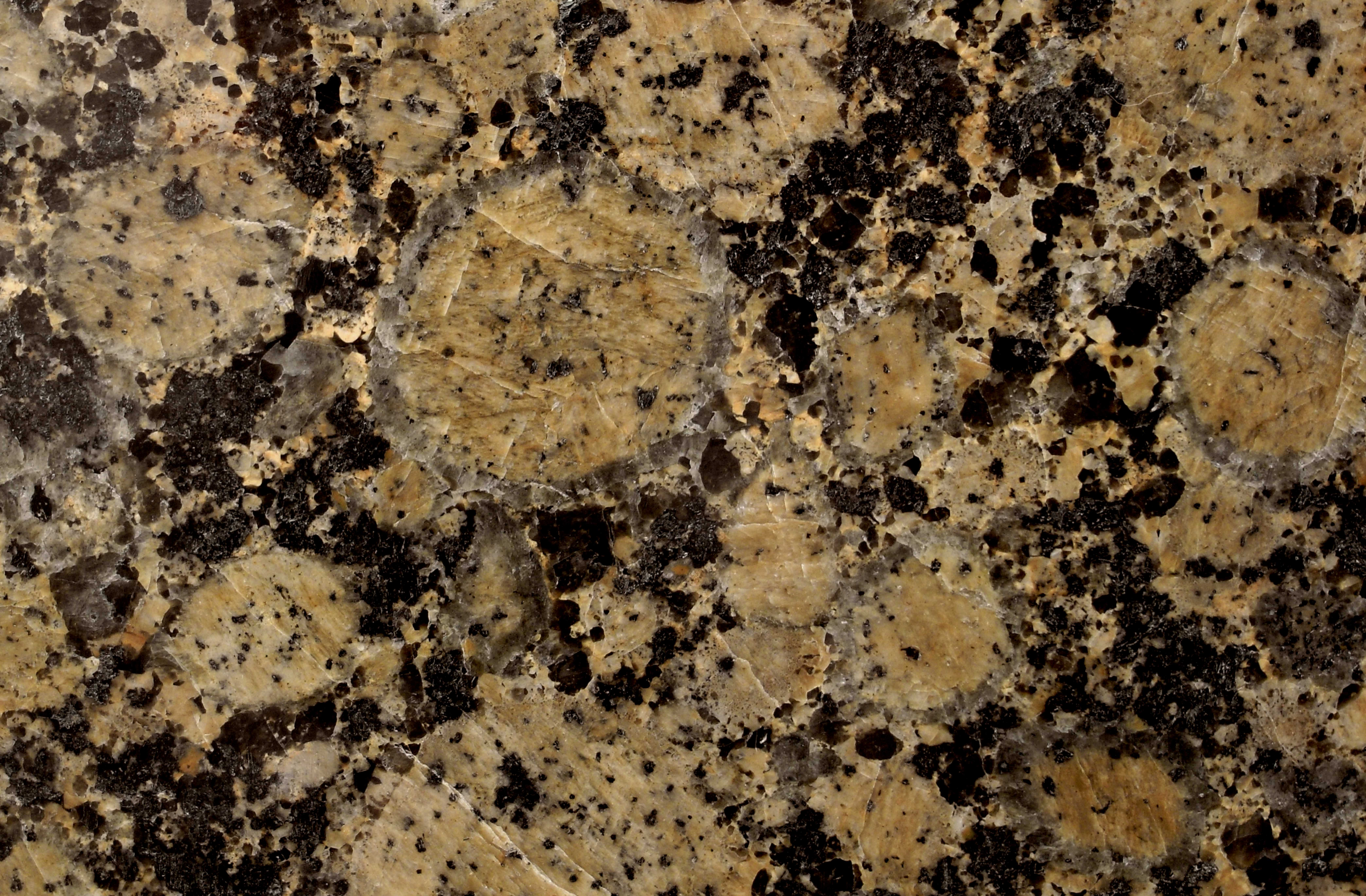 Rapakivi granite (Wyborgite)